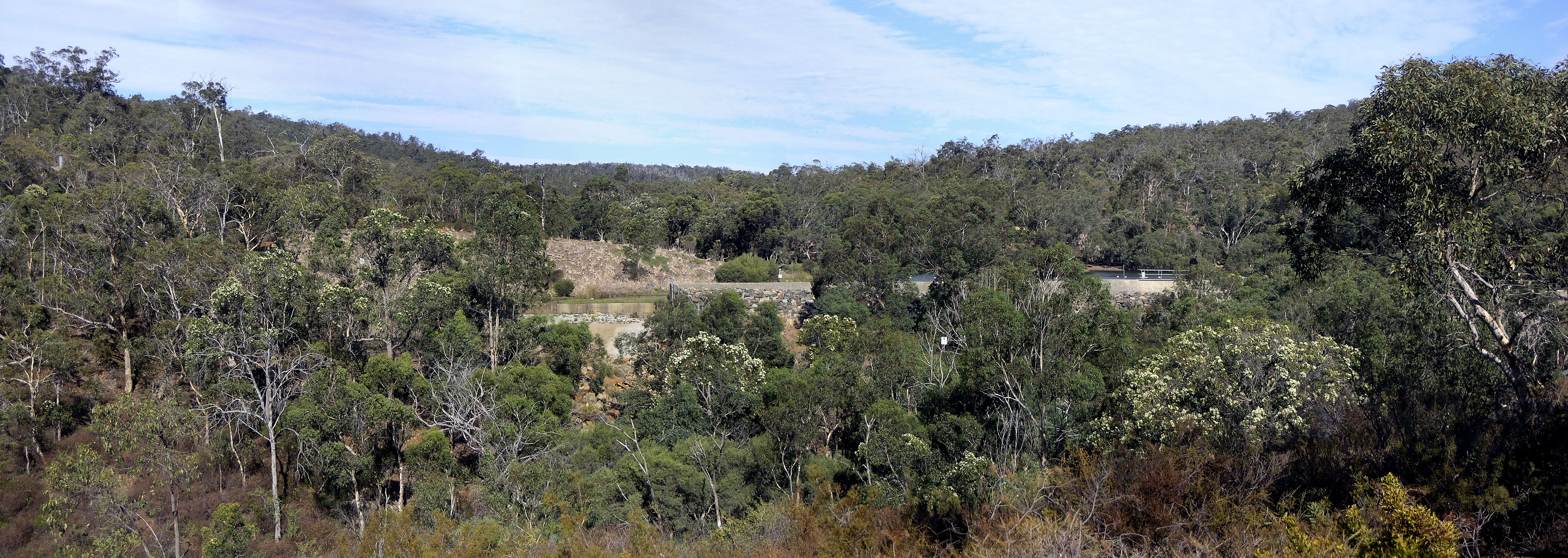 Bickley Dam panorama, about 20k east of Perth Western Australia. Taken for this page: Although I'm not 100% sure that is the correct suburb for the dam... Taken by myself with Olympus C8080W